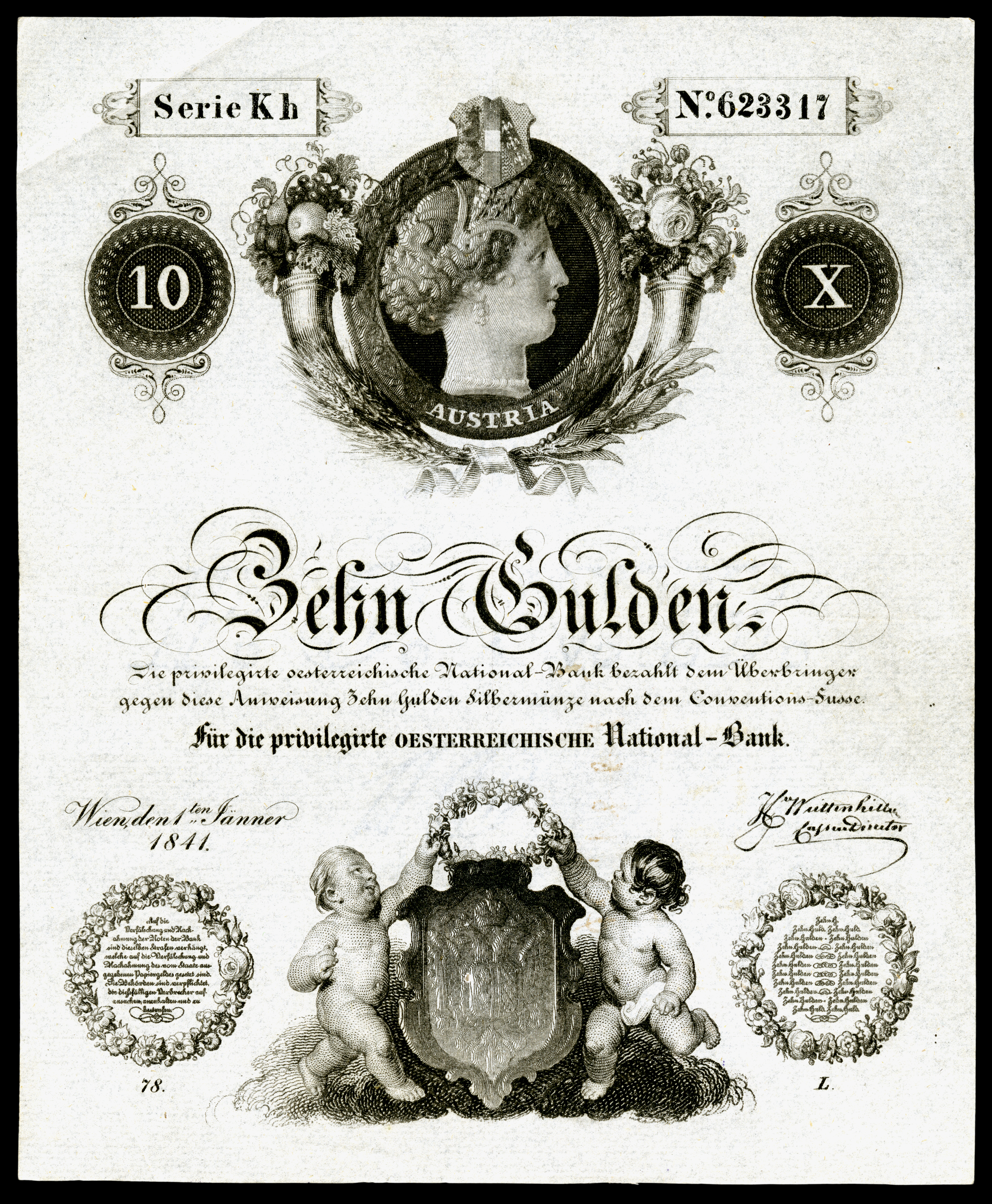 Austrian Empire, 10 Gulden (1841). Designed by Peter Fendi